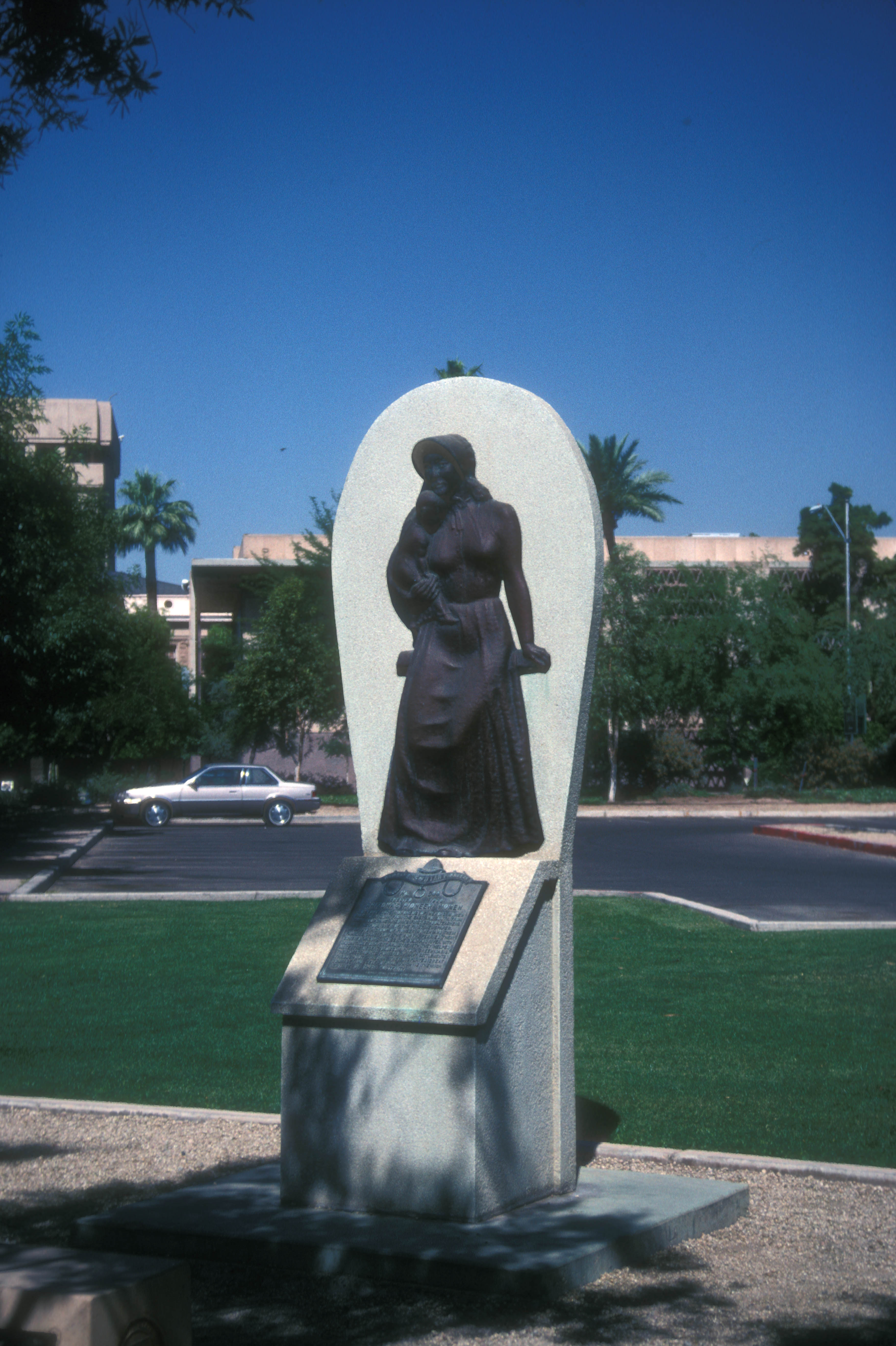 PIONEER MOTHER STATUE IN THE PLAZA - ALSO KNOWN AS STATE CAPITAL PLAZA